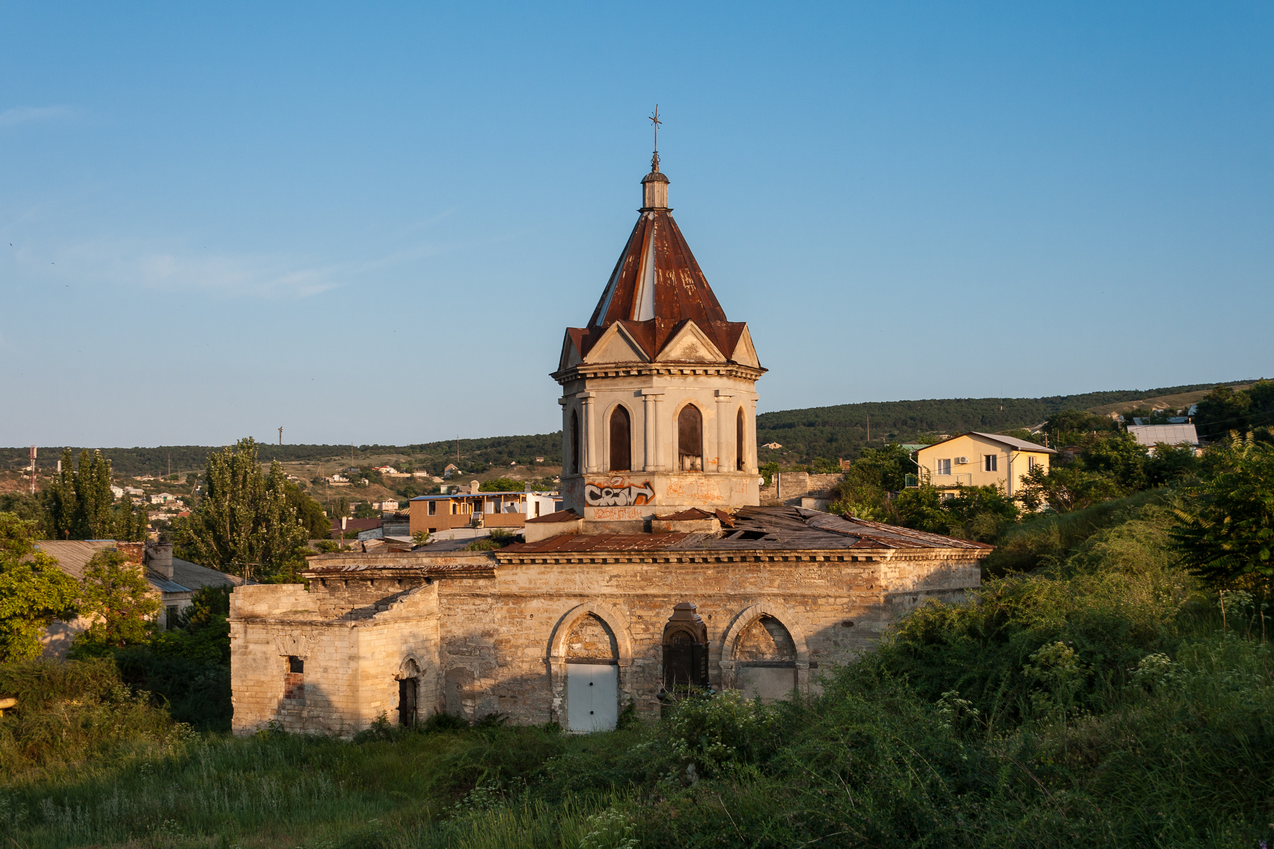 St. George church in Feodosiya, Ukraine